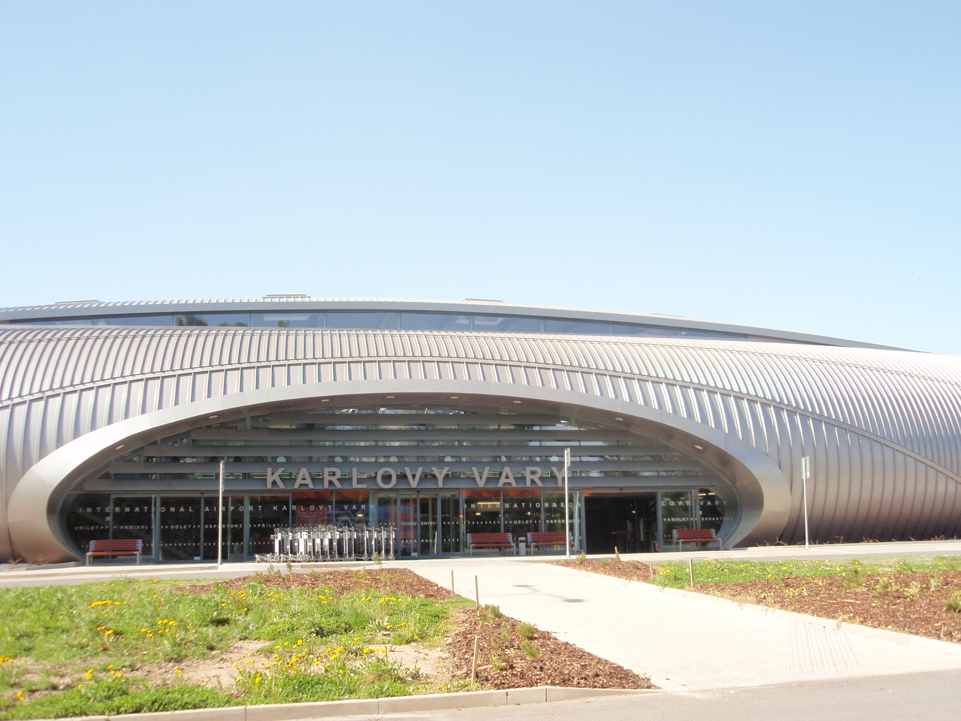 New hall of international airport in Karlovy Vary (Carlsbad), Czech Republic